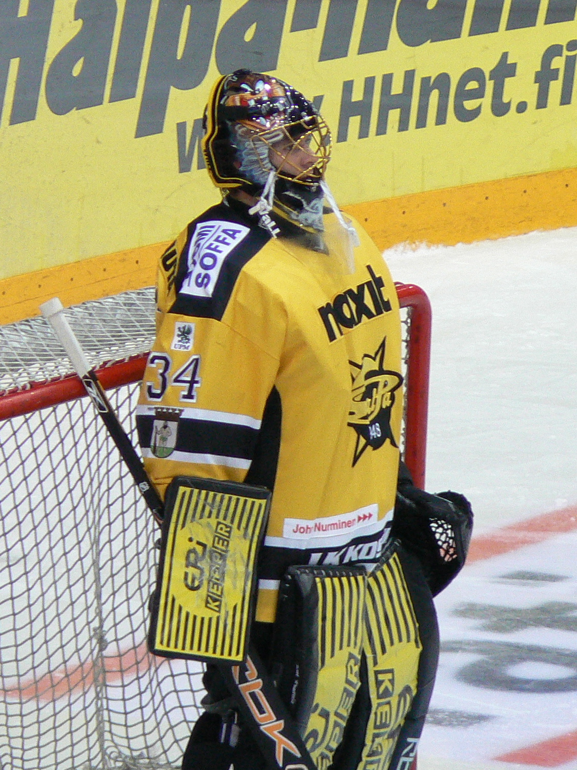 Finnish ice hockey goaltender Joni Puurula playing for SaiPa Lappeenranta in September, 2007.